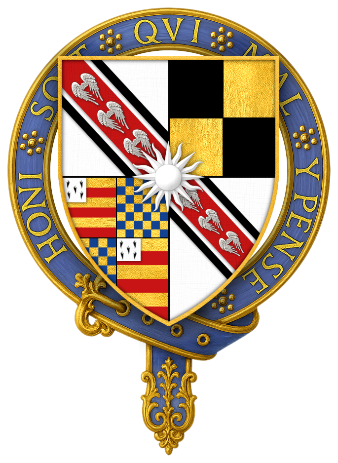 Coat of arms of Sir Richard Wingfield, KG The stall plate of Sir Richard Wingfield remains installed within St. George's Chapel. The arms are, quarterly: 1 and 4, argent on a bend gules, cotised sable, three pairs of wings conjoined in lure of the field (for Wingfield); 2, quarterly sable and or (for Boville); 3, barry of six or and gules, a canton ermine (for Goushill), quartering chequy or and azure (for de Warenne); and at the center point, over all, a star of sixteen points argent.